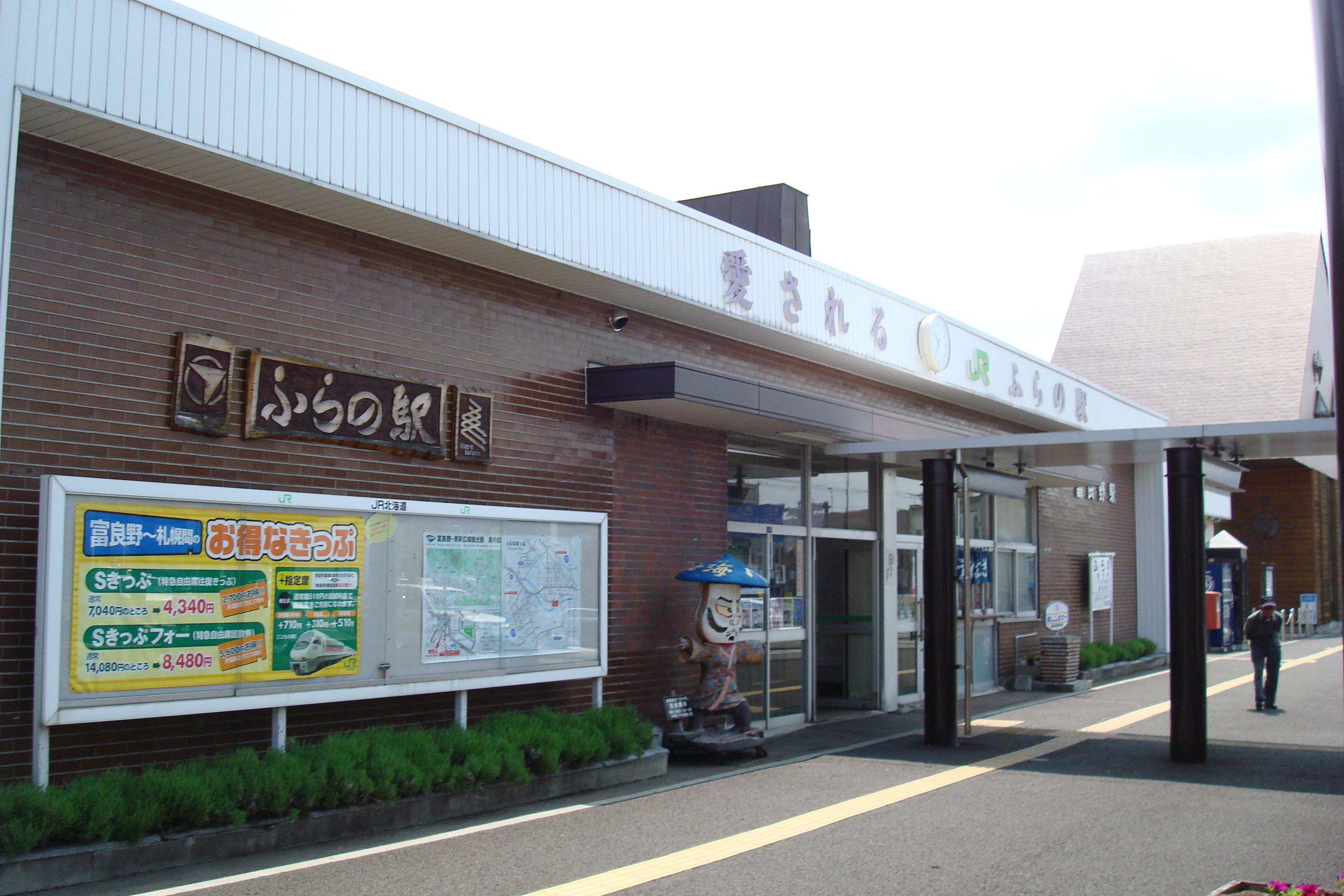 Furano Station in Furano, Hokkaido, Japan.